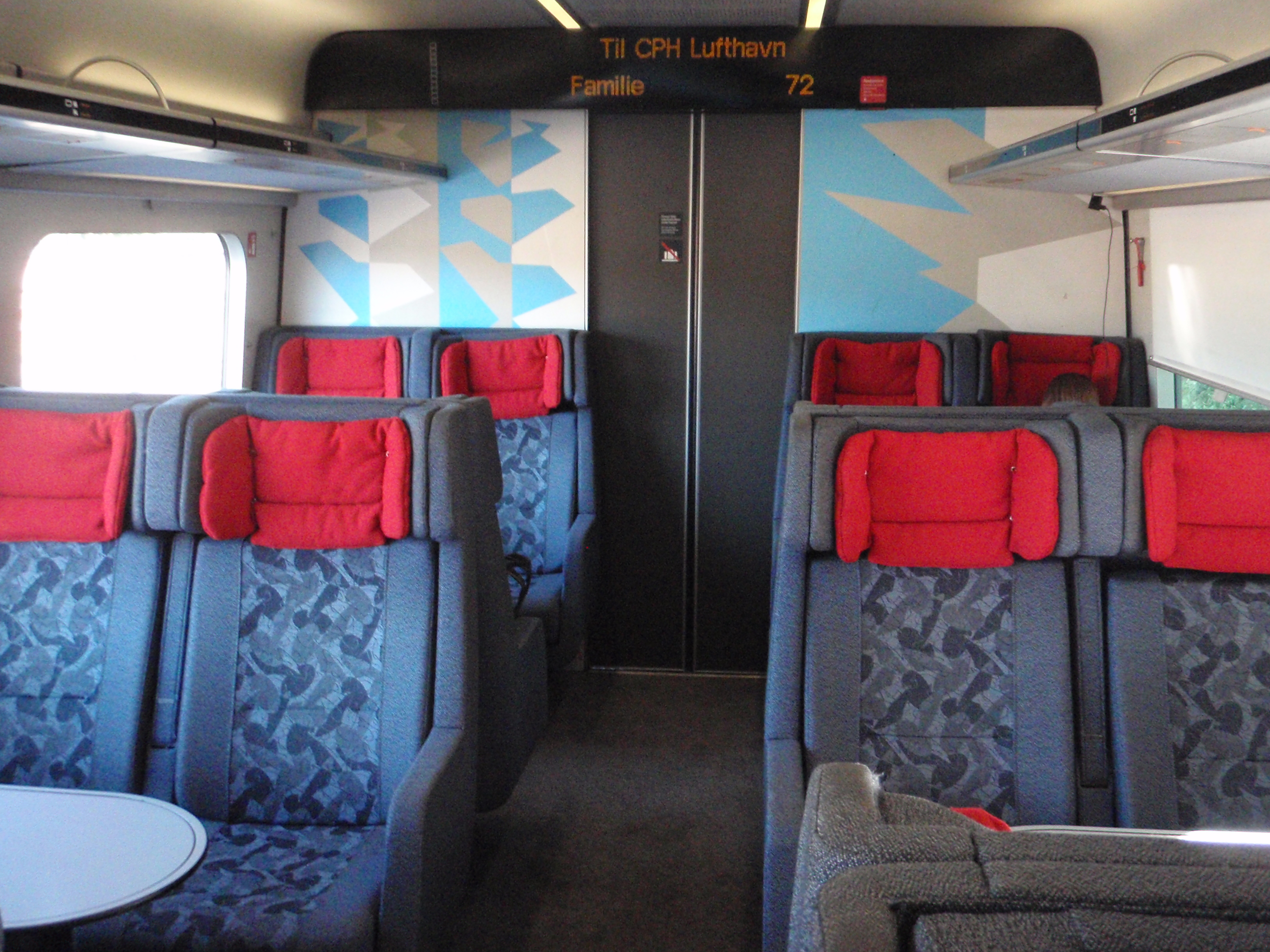 IC3 interior standard family unit MFB 5250